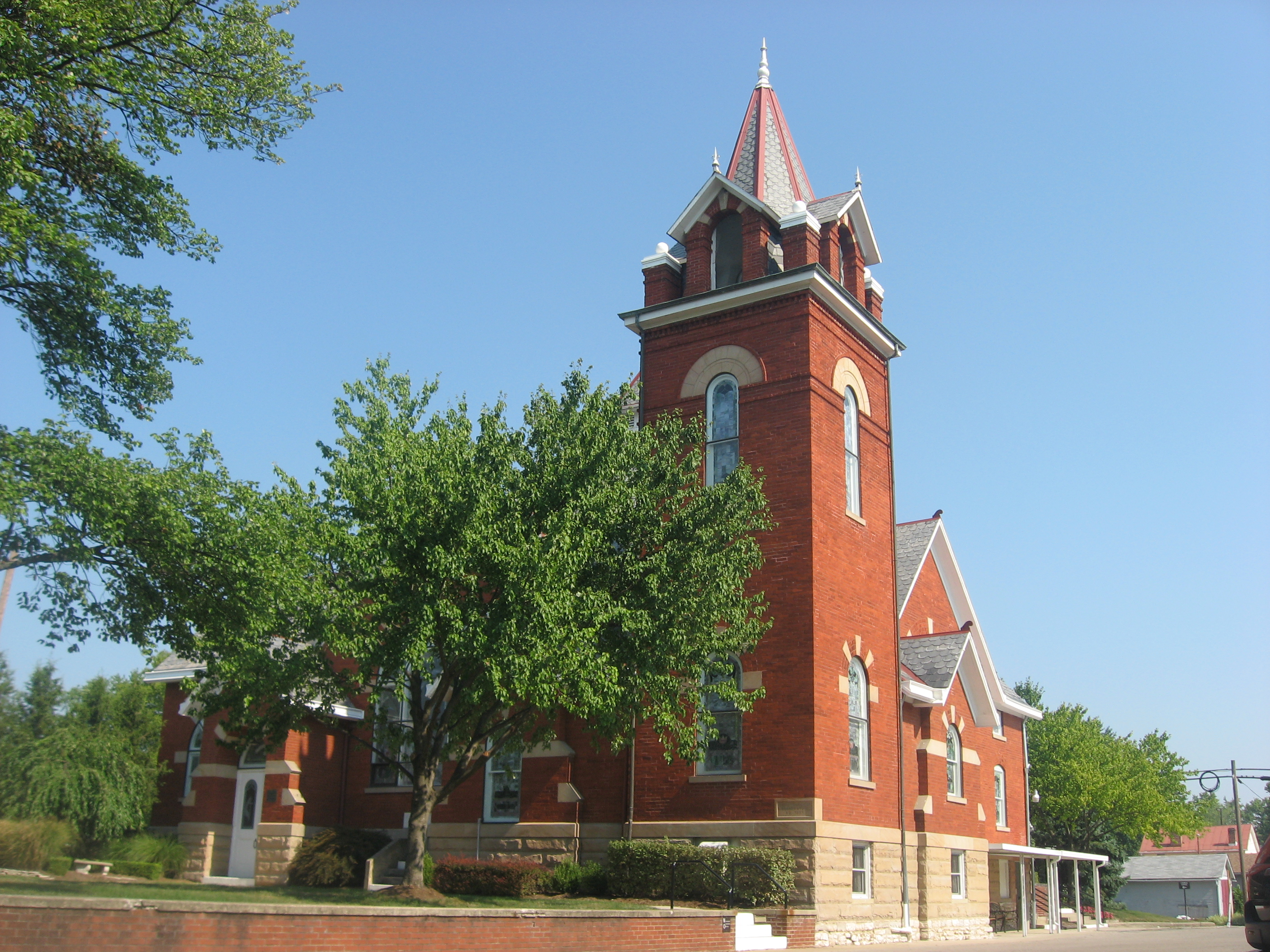 Front and eastern side of the Groveport United Methodist Church, located at 512 E. Main Street in Groveport, Ohio, United States. Built in 1907, it is listed on the National Register of Historic Places.